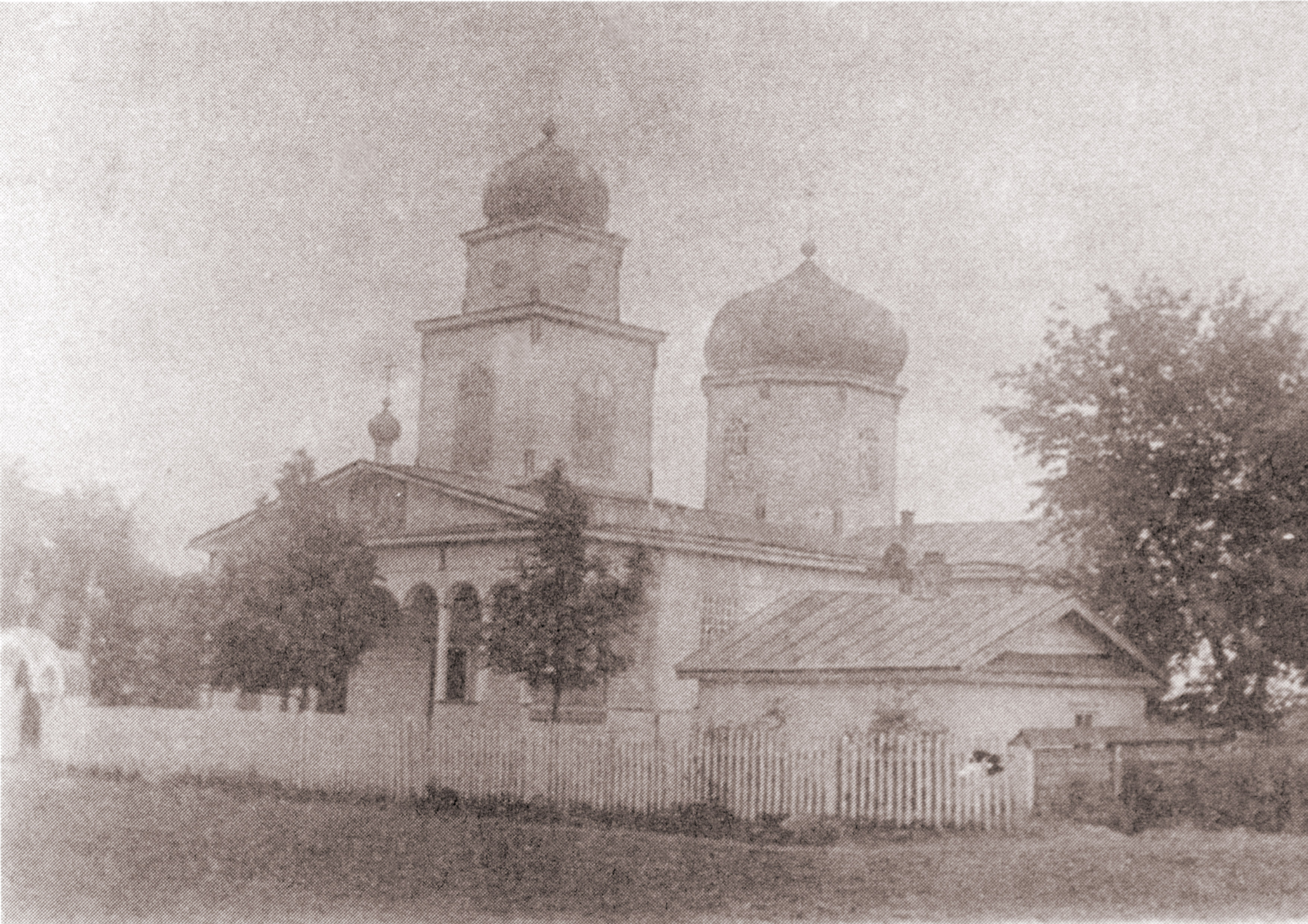 Russian Orthodox "Church of the Nativity of the Theotokos" — in Ladyzhynka, Umanskyi Raion, Cherkasy Oblast, Ukraine. Built of wood, in a simplified Russian Revival style.